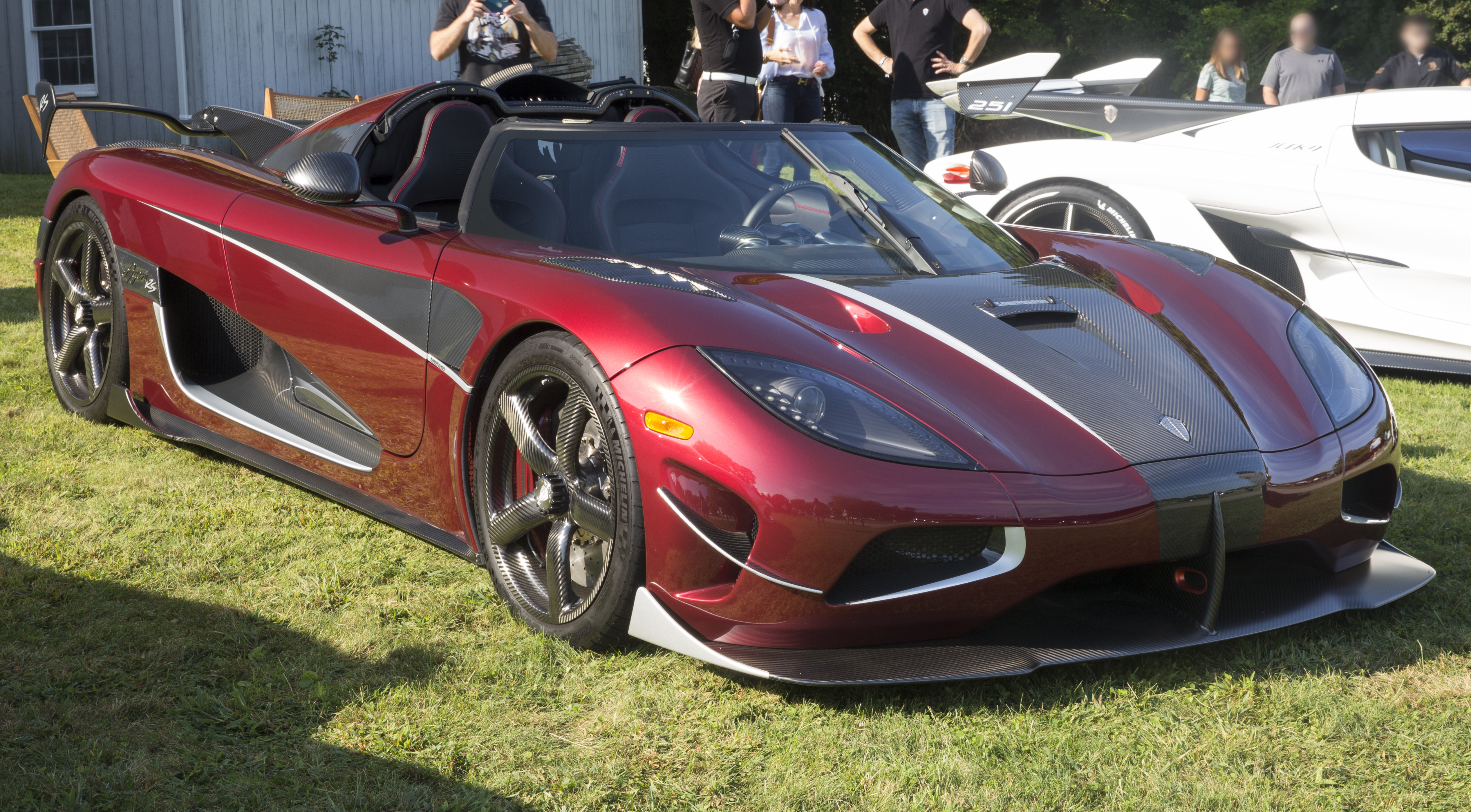 A Koenigsegg Agera RS at the 2019 Bridgehampton Cars & Coffee. This car has been shown at NYIAS several times, I think.